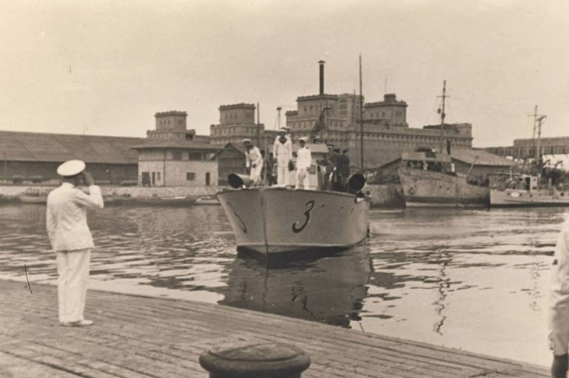 The Romanian motor torpedo boat Viscolul after arriving in Constanța